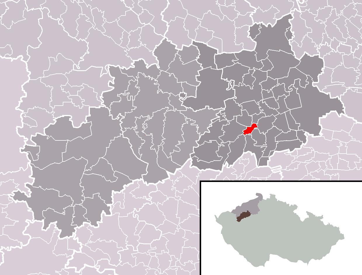 Location of Brodec municipality within Louny District and administrative area of Louny as a Municipality with Extended Competence.